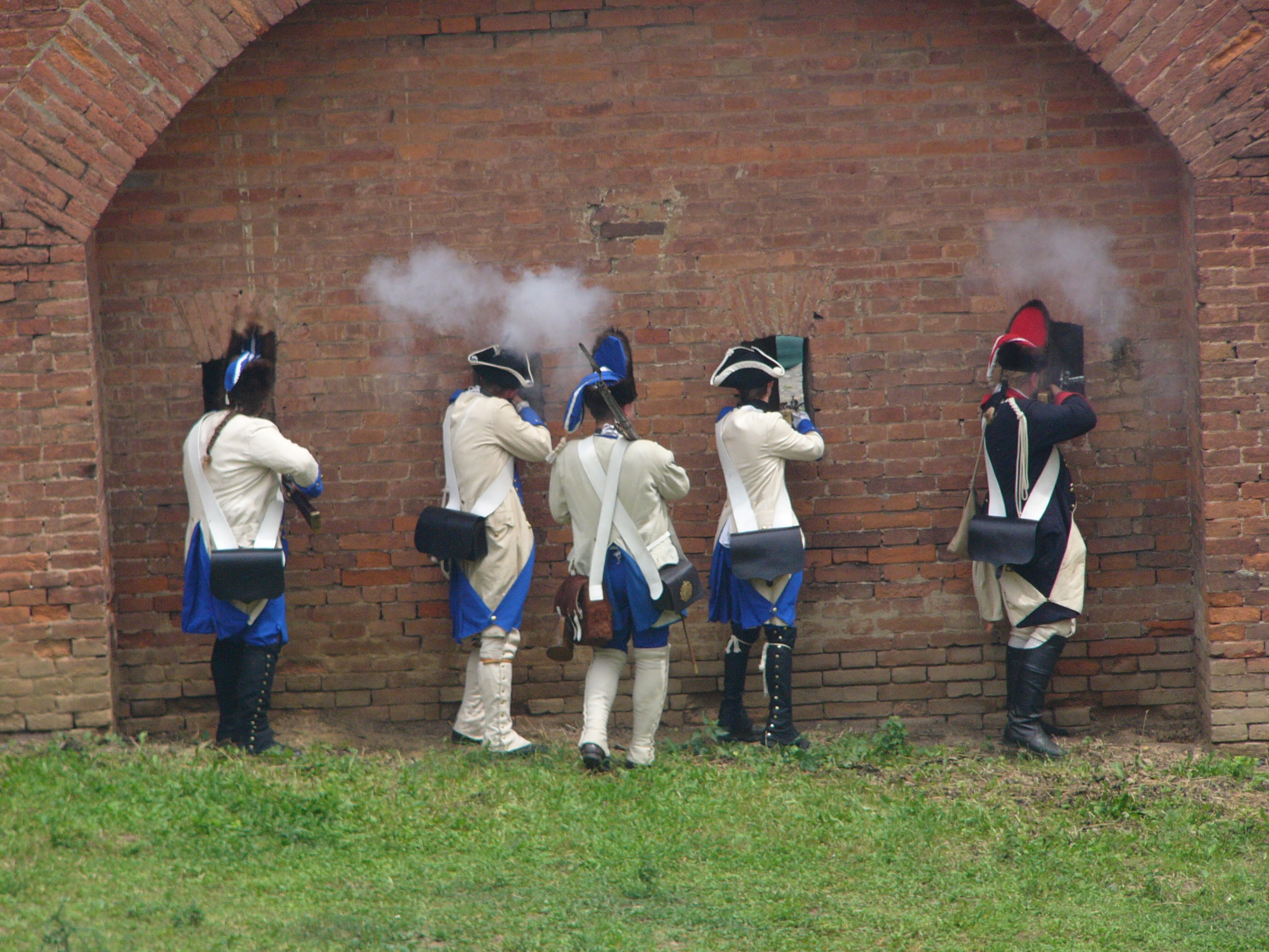 Soldiers of army of Habsburg Monarchy are making defensive fire. (Reenactment of Siege of Olmütz 1758). From the left: grenadier, musketeer, grenadier, musketeer and Croatian Frontier.